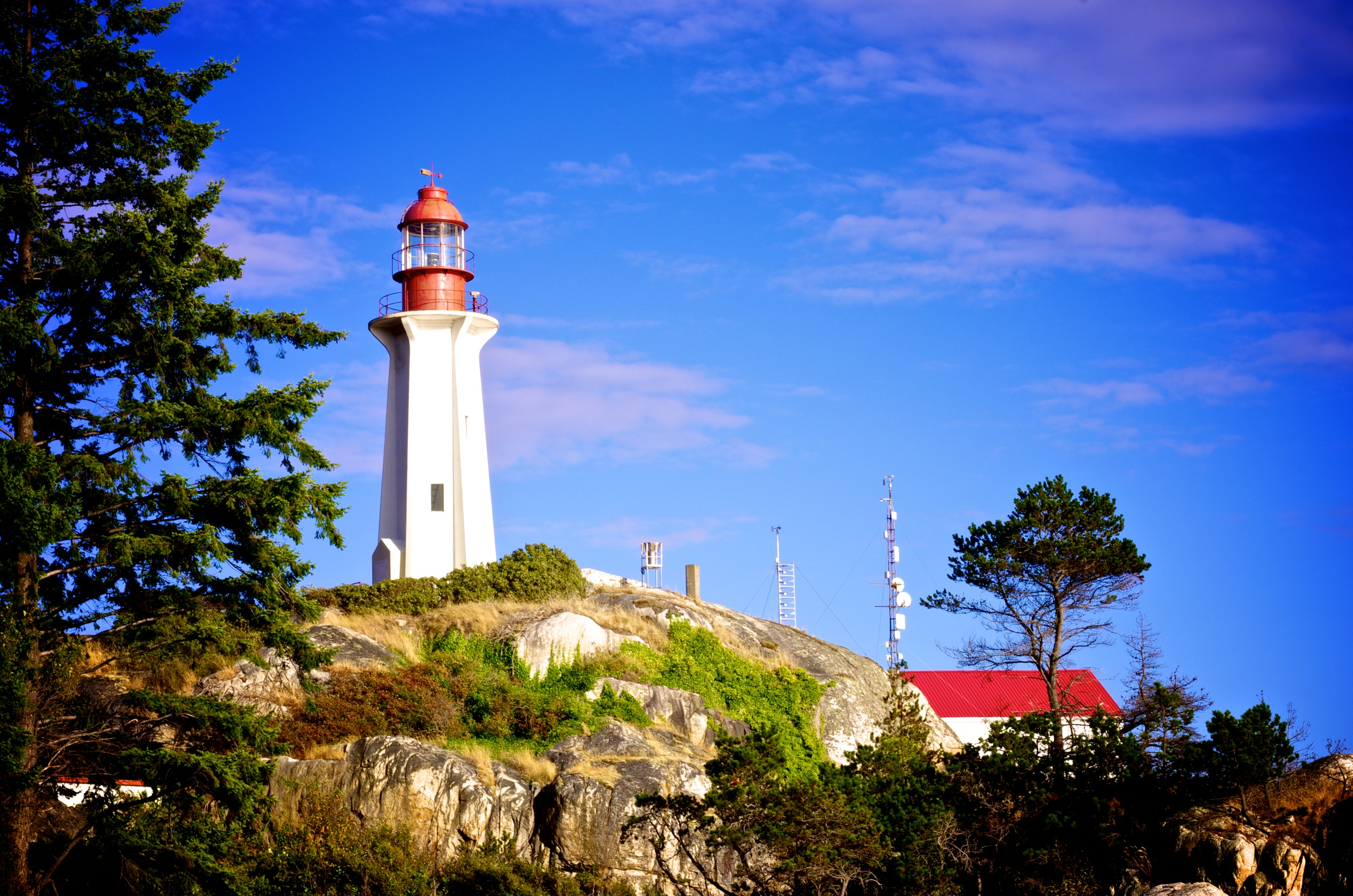 Point Atkinson Lighthouse